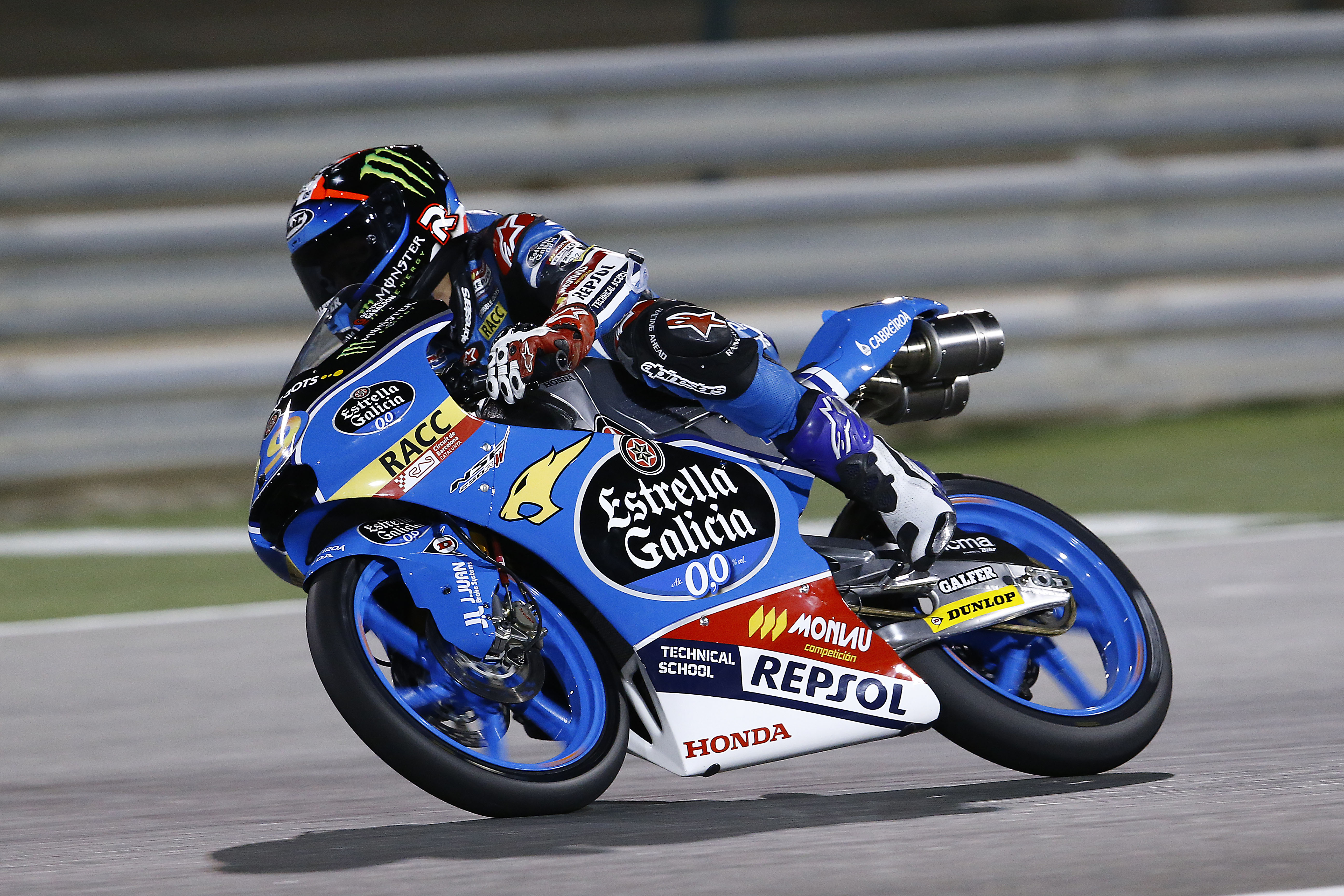 Jorge Navarro, Moto3, at Qatar GP 2016